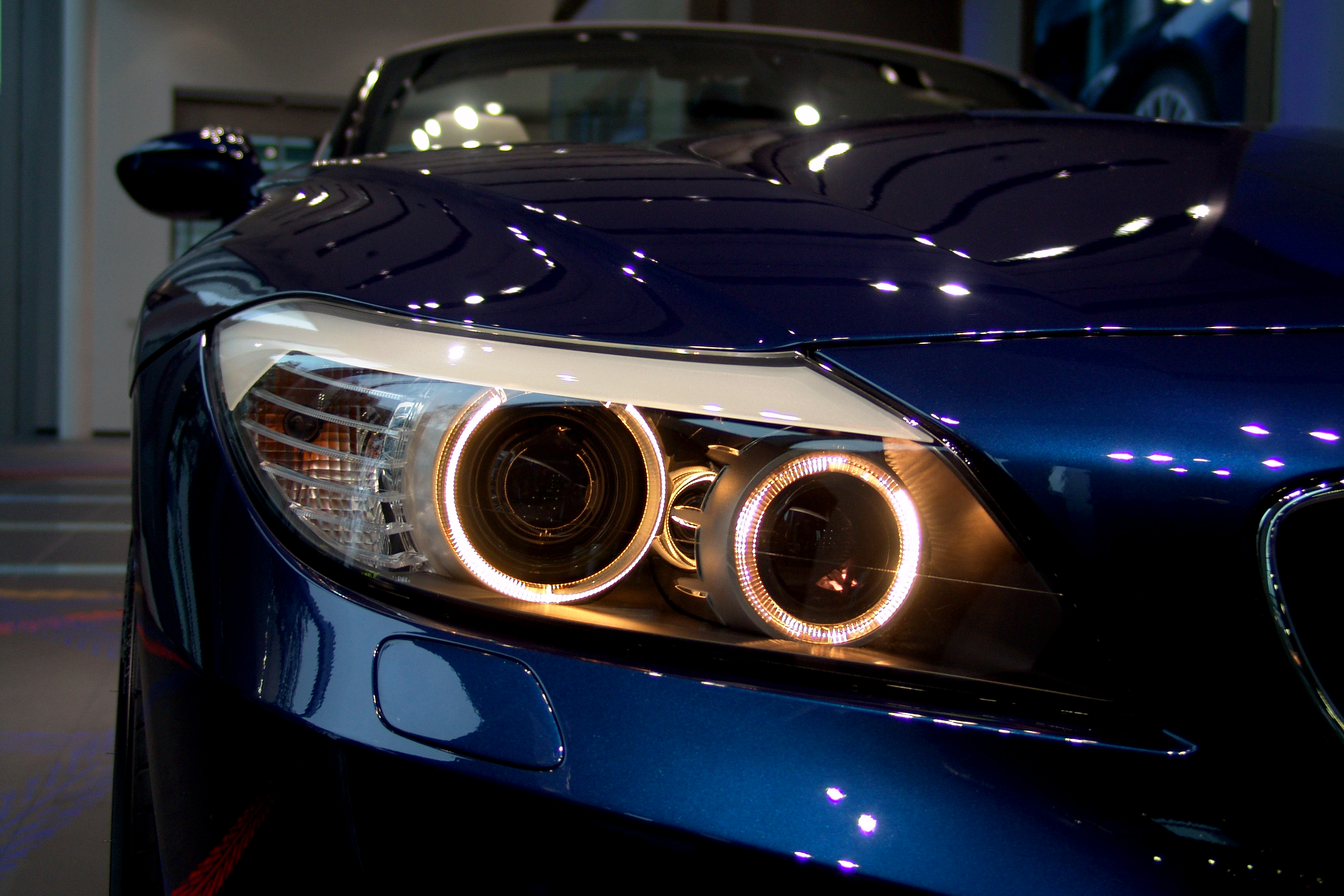 Lights of BMW Z4 E89